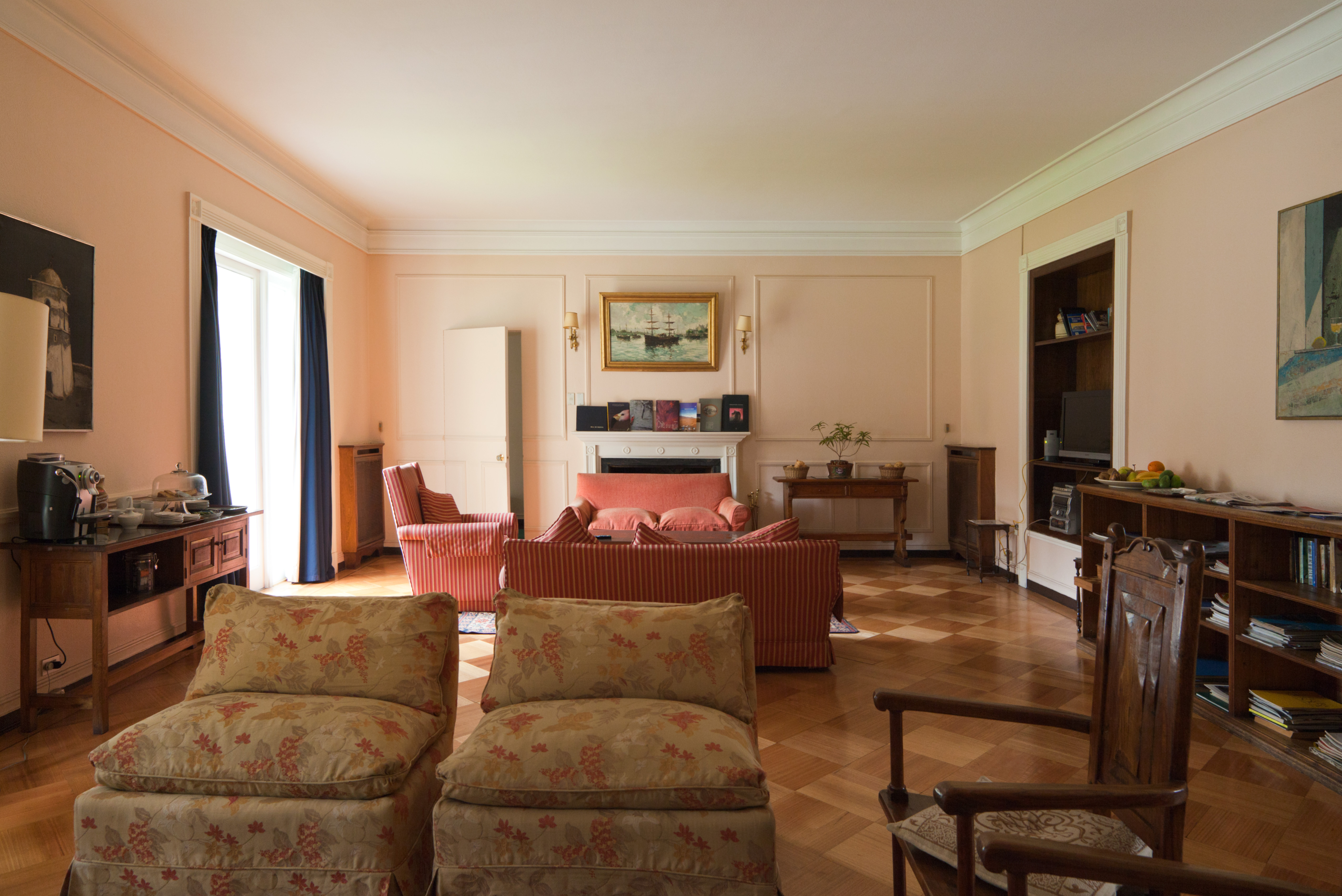 This is the present-day image from the Then and Now comparison Picture of the Week, A Timeless Sanctuary in Santiago.